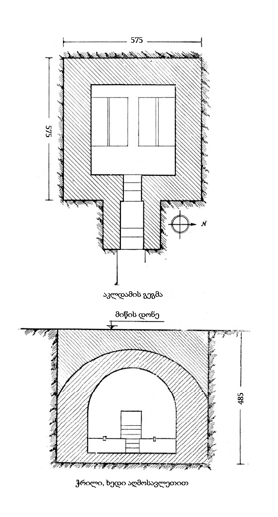 Plan of the tomb under the church in the village Sioni